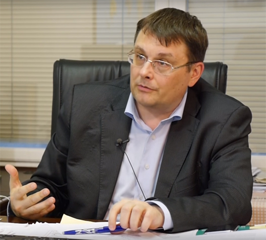 Fedorov Eugeny